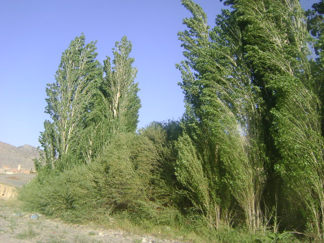 Tounfit